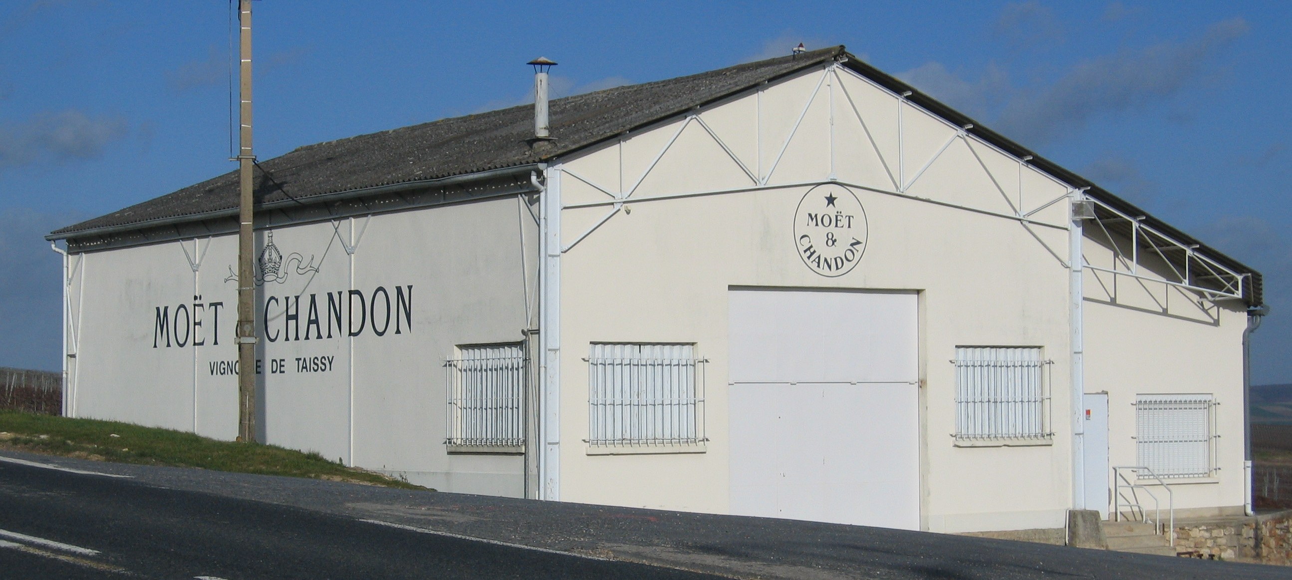 Press house of Moët & Chandon in a Champagne vineyard in Taissy, just south of Reims